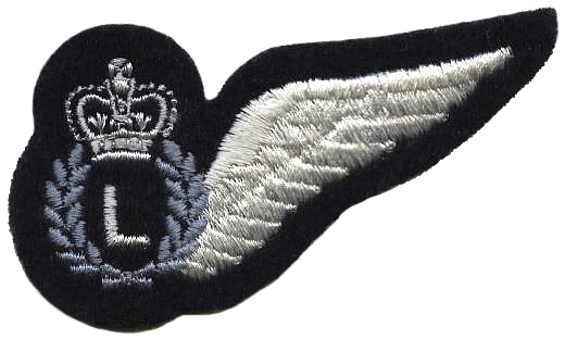 Royal Australian Air Force Loadmaster Brevet, qualification badge.